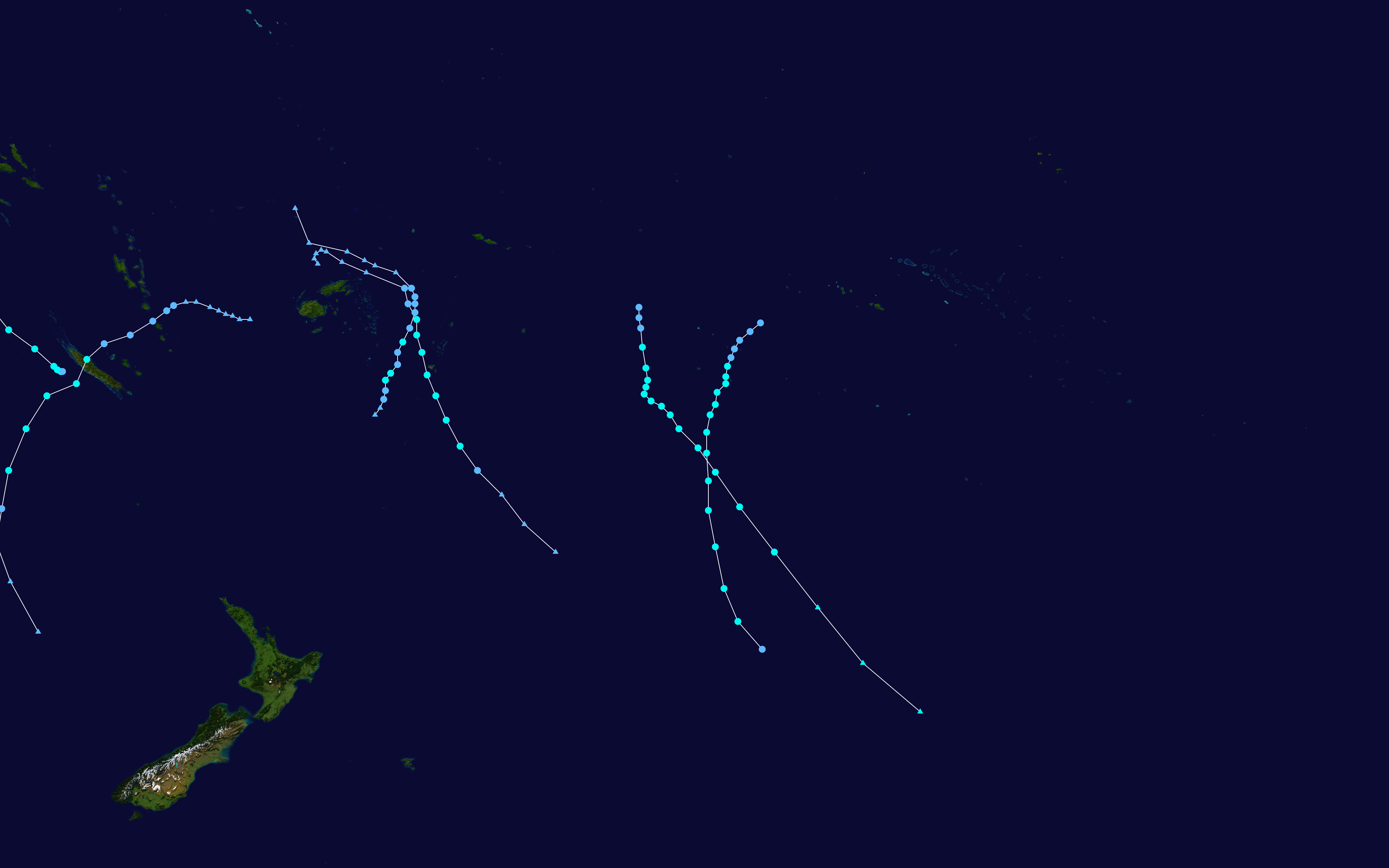 This map shows the tracks of all tropical cyclones in the 2008-09 South Pacific cyclone season. The points show the location of each storm at 6-hour intervals. The colour represents the storm's maximum sustained wind speeds as classified in the Saffir-Simpson Hurricane Scale (see below), and the shape of the data points represent the type of the storm. Saffir–Simpson scale Tropical depression≤38 mph≤62 km/h Category 3111–129 mph178–208 km/h Tropical storm39–73 mph63–118 km/h Category 4130–156 mph209–251 km/h Category 174–95 mph119–153 km/h Category 5≥157 mph≥252 km/h Category 296–110 mph154–177 km/h Unknown Storm type Tropical cyclone Subtropical cyclone Extratropical cyclone / Remnant low / Tropical disturbance / Monsoon depression